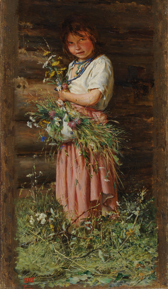 Kirill Vikentevich Lemokh (Karl Lemoch) (1841-1910) Girl with flowers